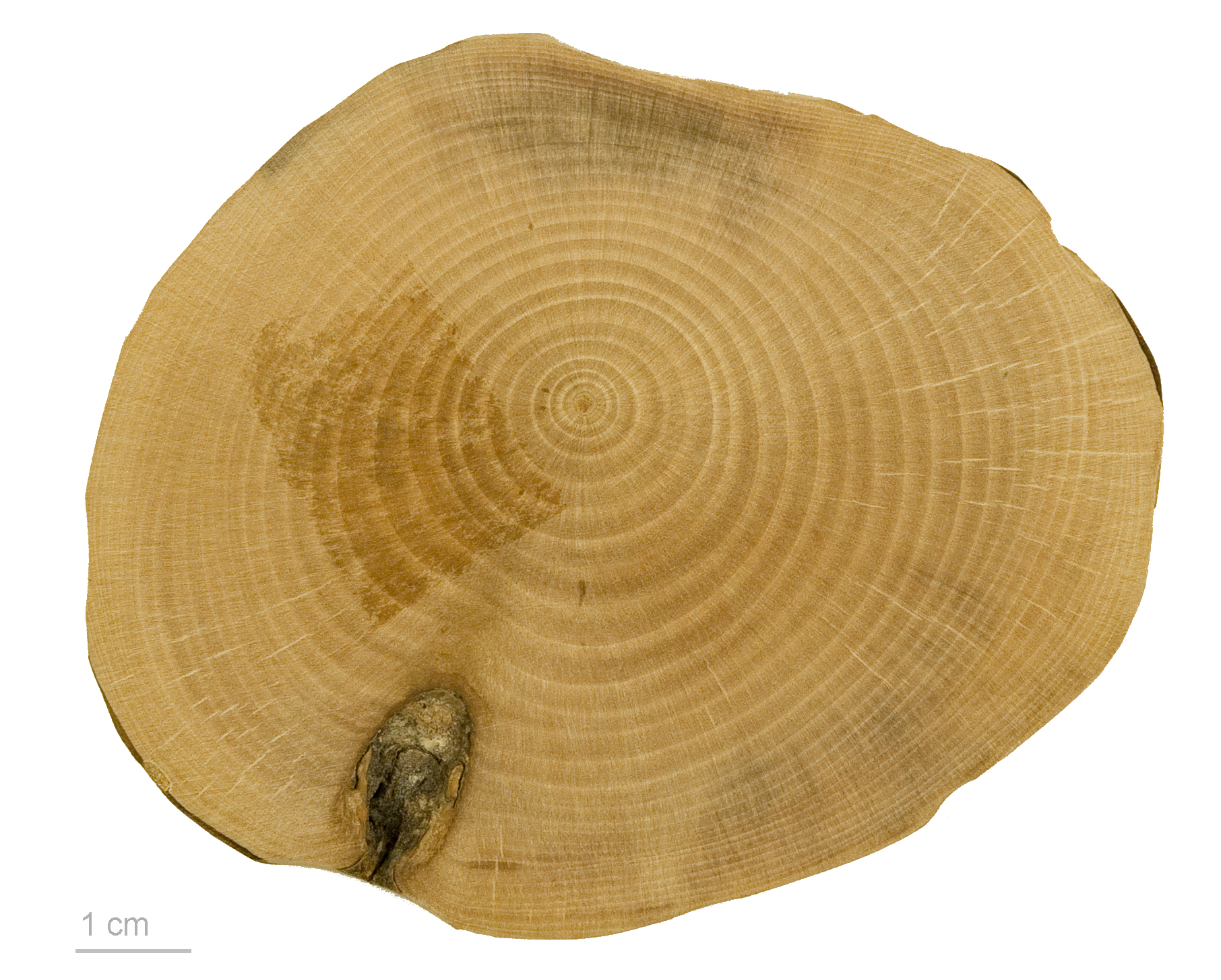 Japanese camellia , wood